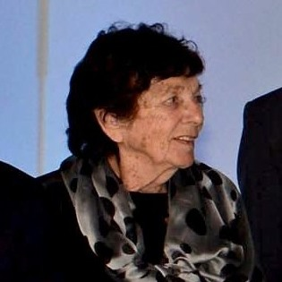 Israel celebrates its 65th Independence Day. Israel Prize ceremony held at the International Convention Centre in Jerusalem. Photo: Israel Prize recipients 2013 with Minister of Education, MK Shai Piron (center) alongside Actor Chaim Topol (to his right). First on the right, close to the camera: Eliyahu Hacohen, Prof. Nathan Nelson, Professor Gideon Dagan and Professor Adam Mazur. First on the left, close to the camera: Professor Joseph Kaplan, Professor Nola Chilton, Professor Yoram Bilu, wife of the late Ron Nachman, Dorit and Professor Hanna Turniansky.